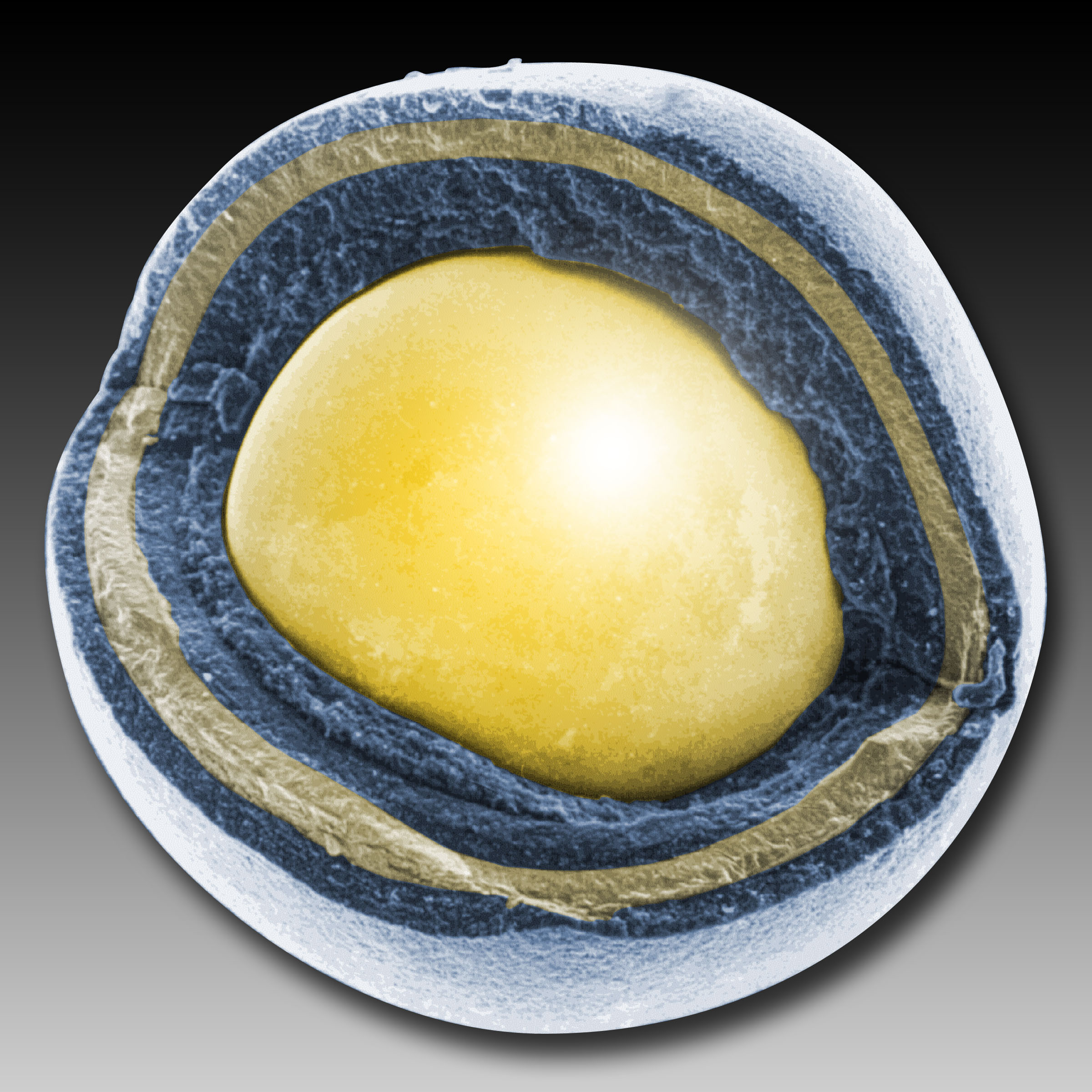 TRISO fuel particle. An outer shell of carbon coats a layer of silicon carbide, which coats another layer of carbon and the uranium center- where the energy-releasing fission happens.